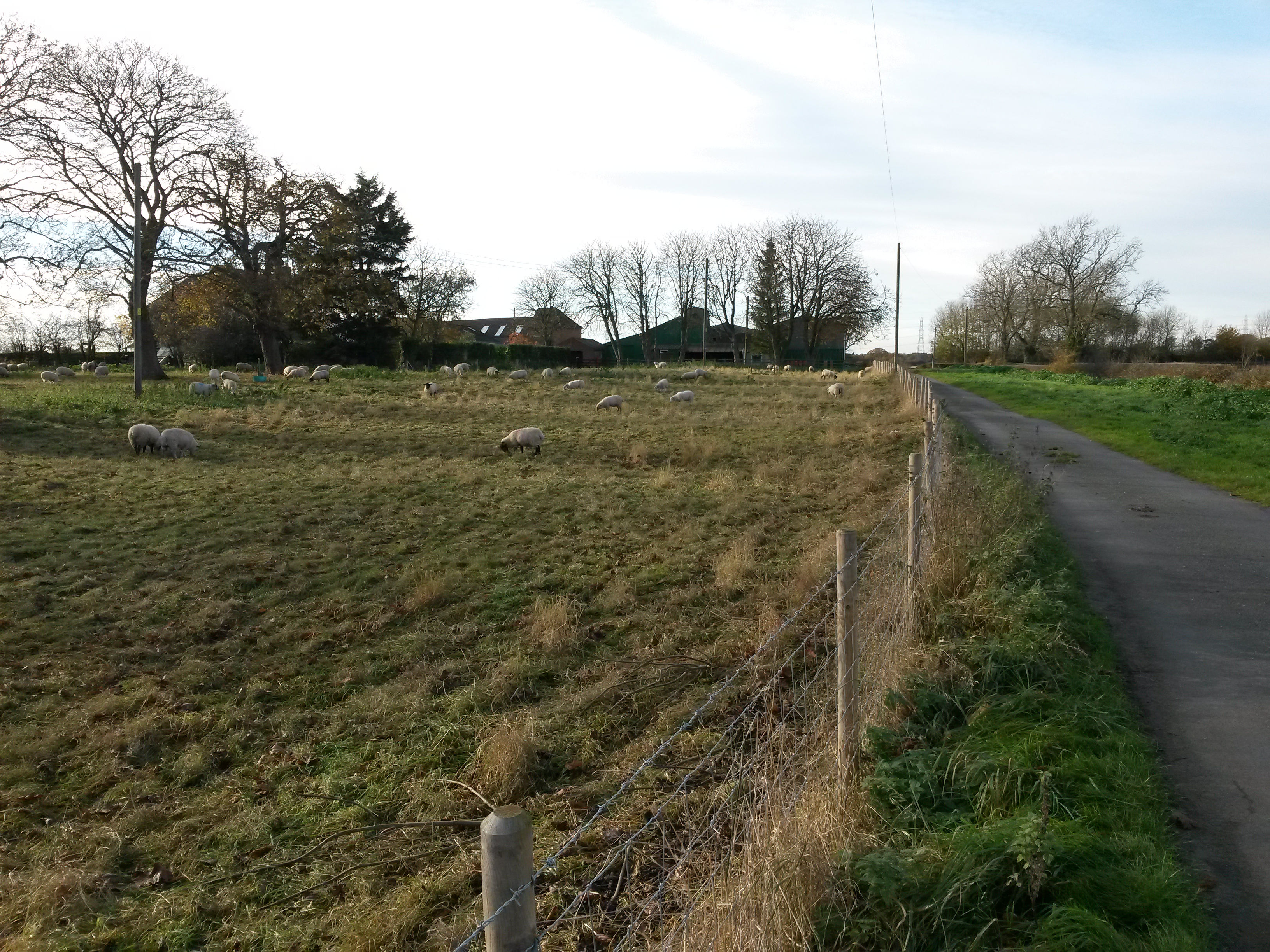 This is the site of the former Broadholme Priory, near Skellingthorpe. Taken from a public right of way.